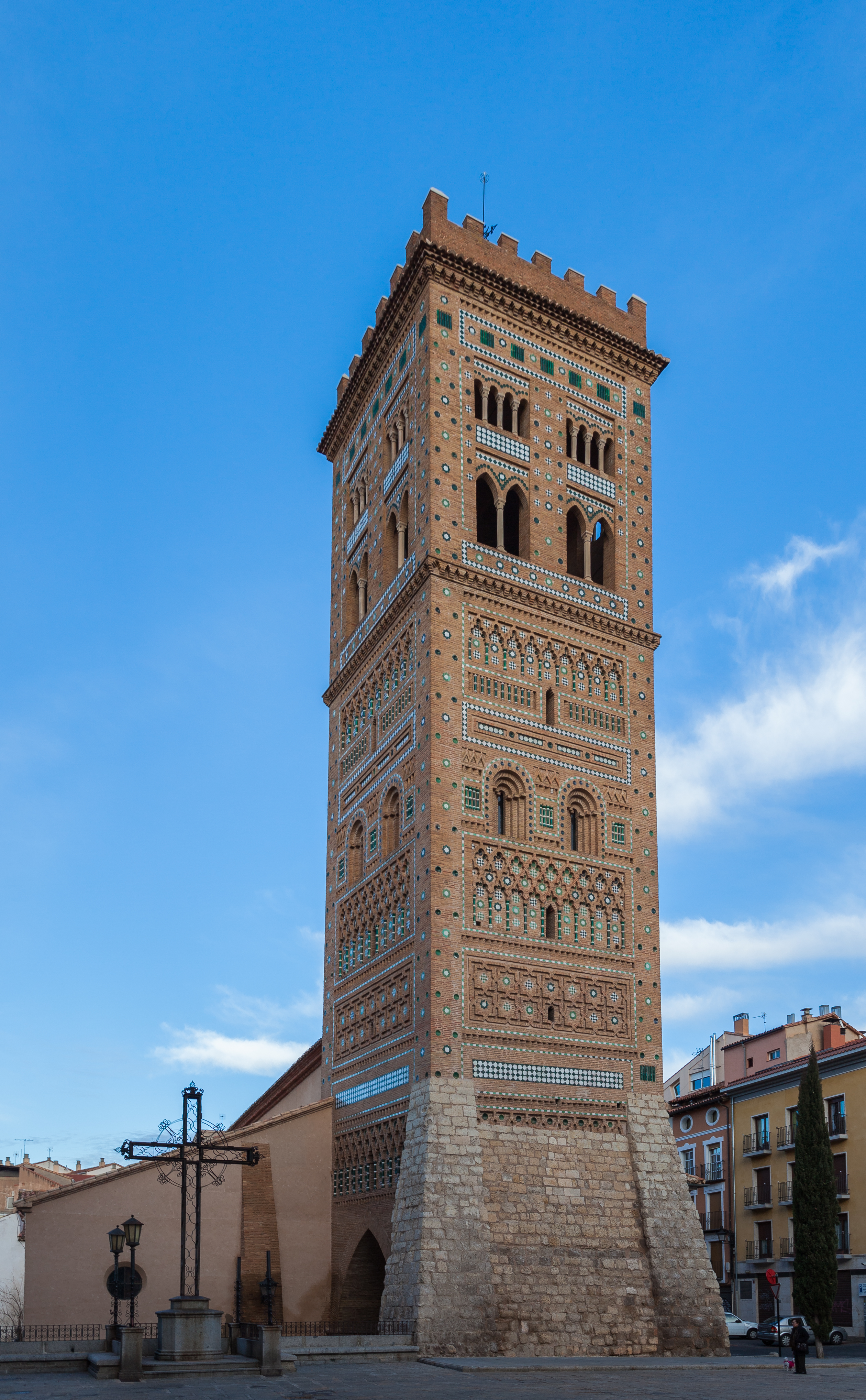 Church of San Martín, Teruel, Spain